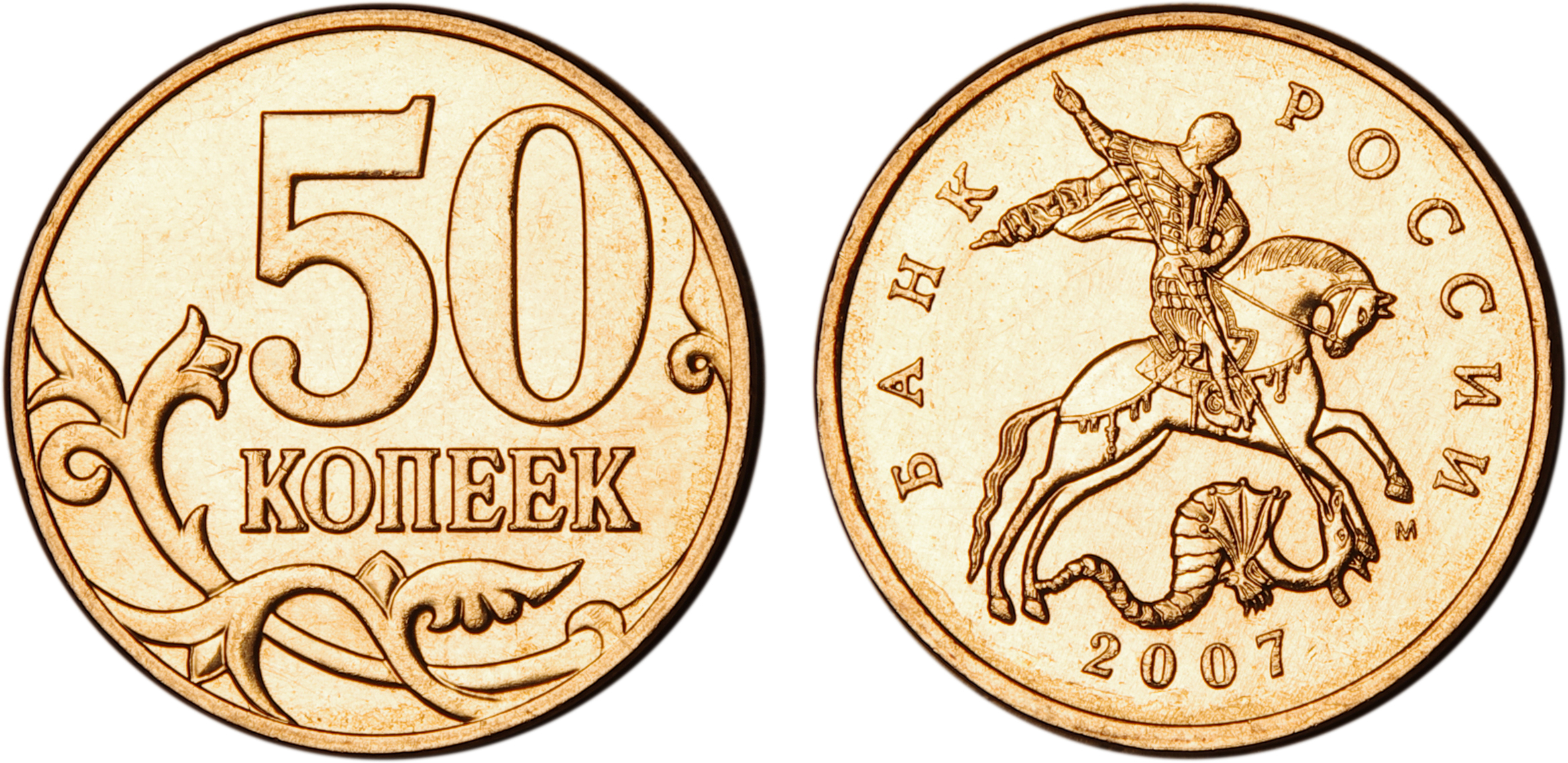 Russian coin 50 kopecks from 2006.